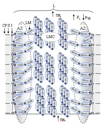 Molecular power 22. Appearance of viscosity forces in a capillary